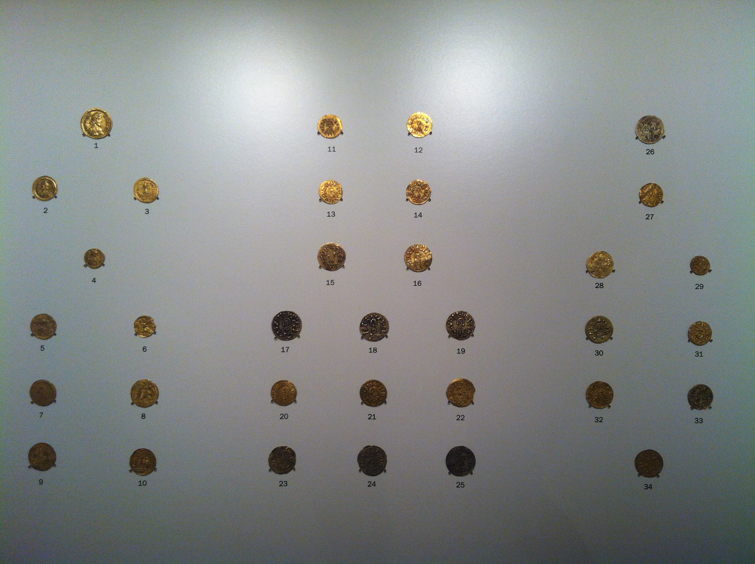 Numismatic collection conserved at MNAC in Barcelona.The collection of the Numismatic Cabinet of Catalonia, open to consultation by researchers, is formed by over 135,000 pieces. The principal numismatic series are represented here, with coins dating from the 6th century BC to the present day, as well as medals, valuable paper, tokens, monetary weights, scales, dies, decorations and insignia. Of all this wealth of material, the most important and emblematic series are without doubt the Catalan ones. They include extremely rare pieces, such as the first silver coins ever struck in the Iberian Peninsula by the Greeks of Emporion, the issues of the Catalan counties, those of the 17th-century Reapers’ War, those of the Napoleonic invasion and the bank notes issued by local councils in Catalonia during the Civil War of 1936-1939